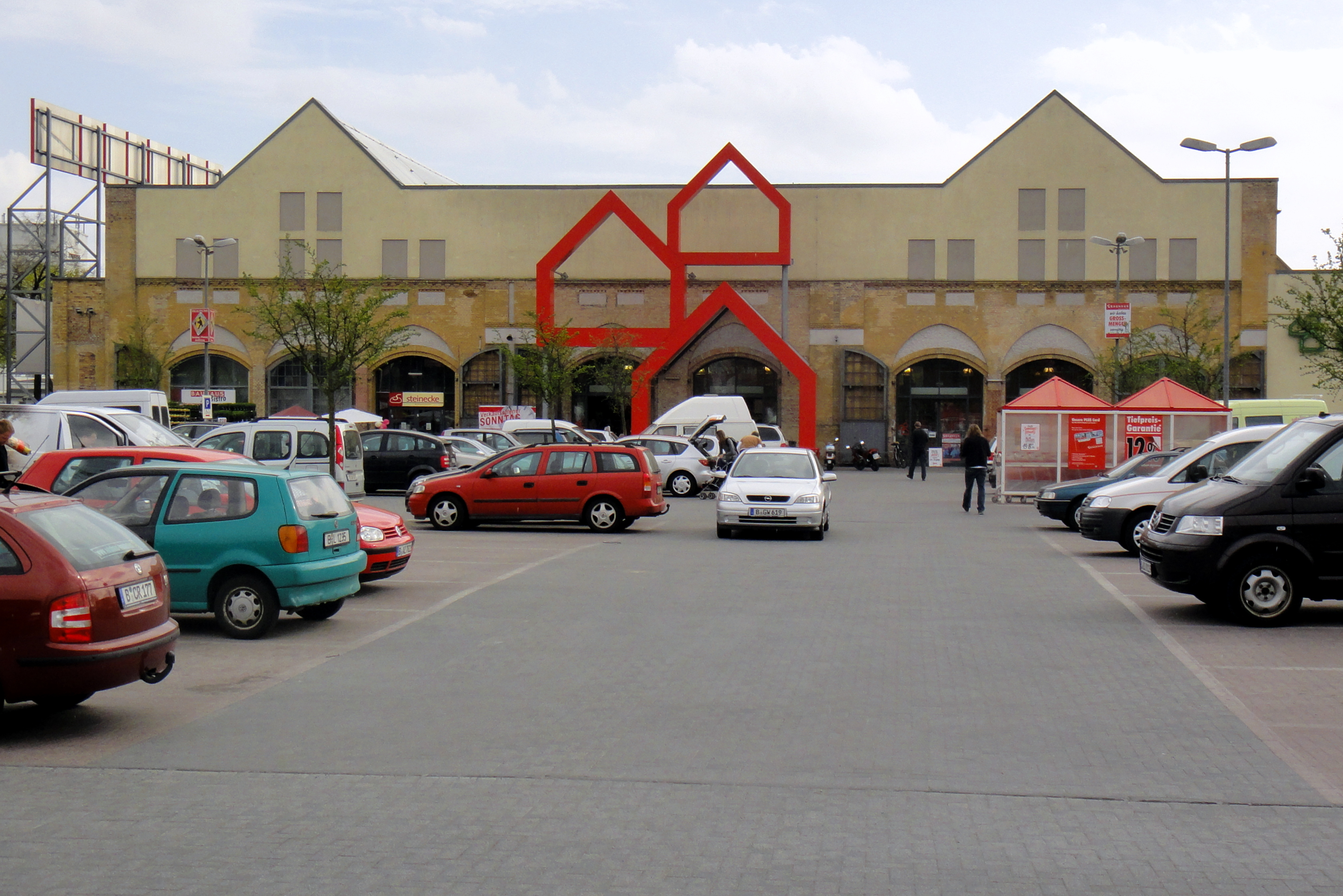 "Bauhaus" home improvement market in Berlin-Schöneberg near Südkreuz station. The building was Formerly a workshop of the Deutsche Reichsbahn.